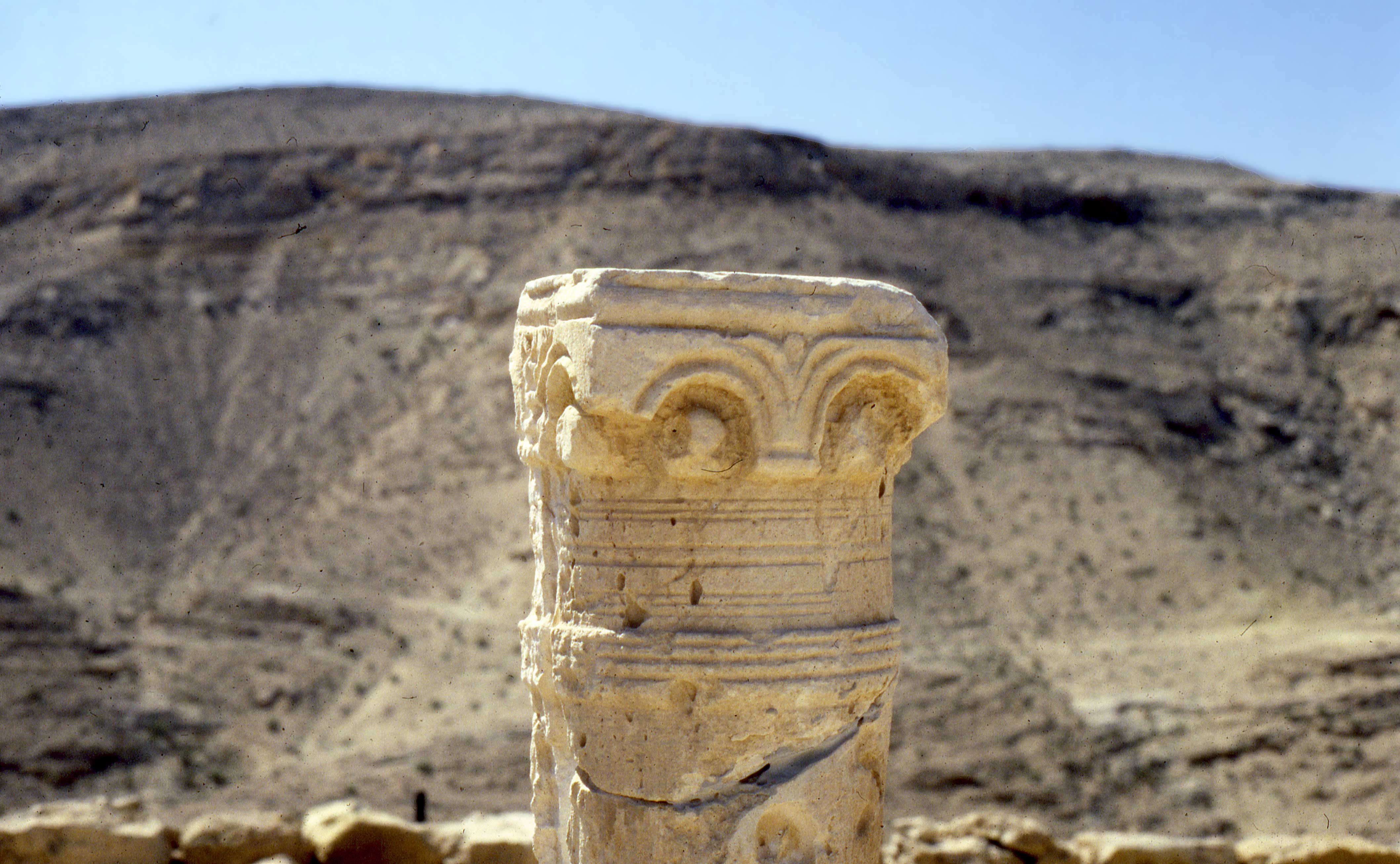 Ruins in the Negev desert, Israel